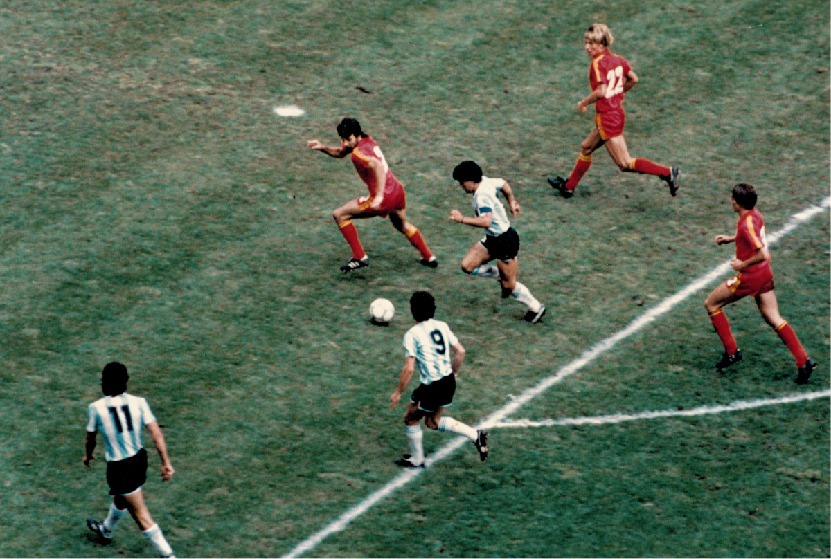 Diego Maradona dribbling v Bélgica at the 1986 World Cup. José Luis Cucciuffo (9) and Jorge Valdano (11) watch.